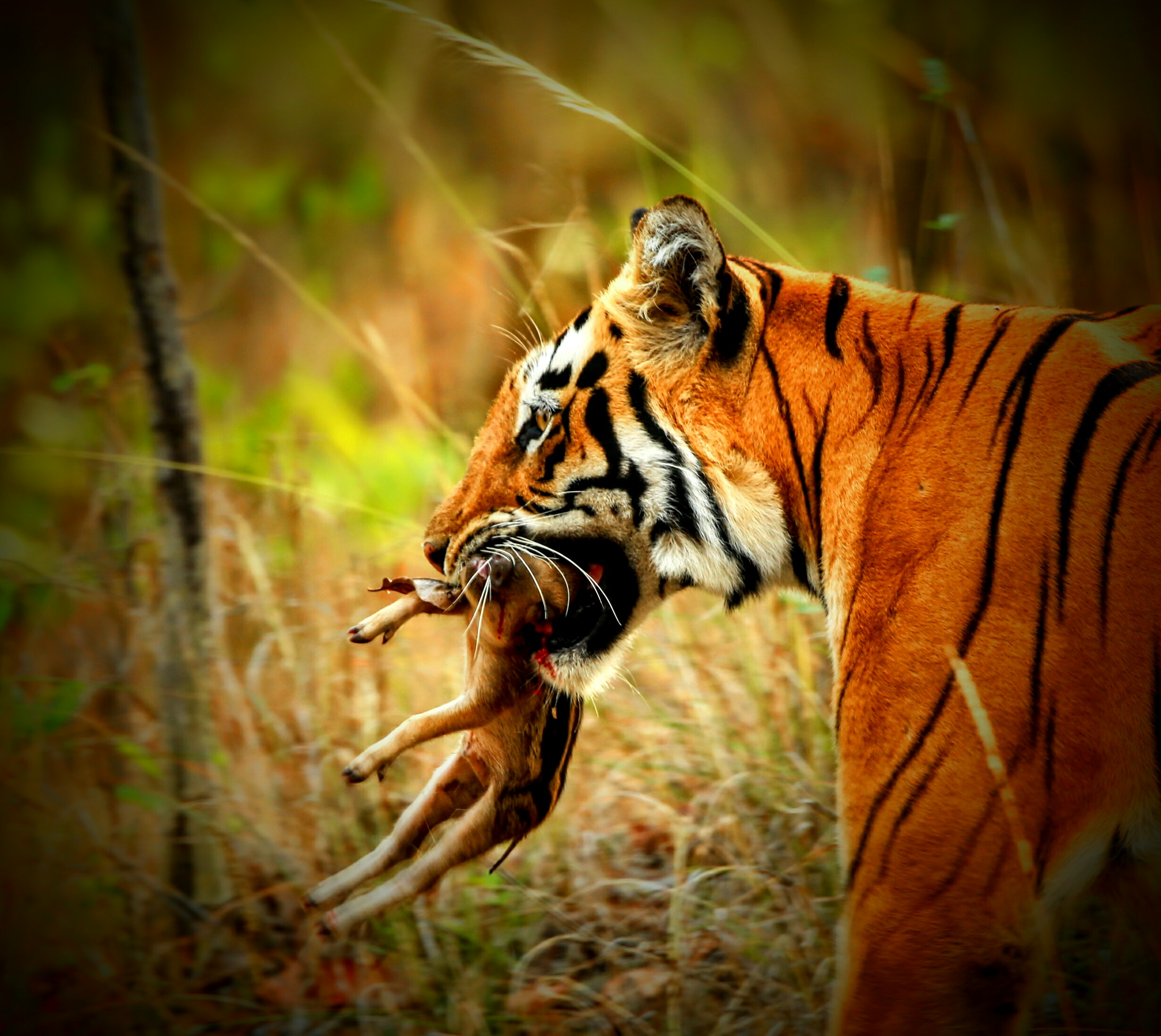 This is picture taken in the Forest of Tadoba, India. This shows the balance of existence of wildlife.